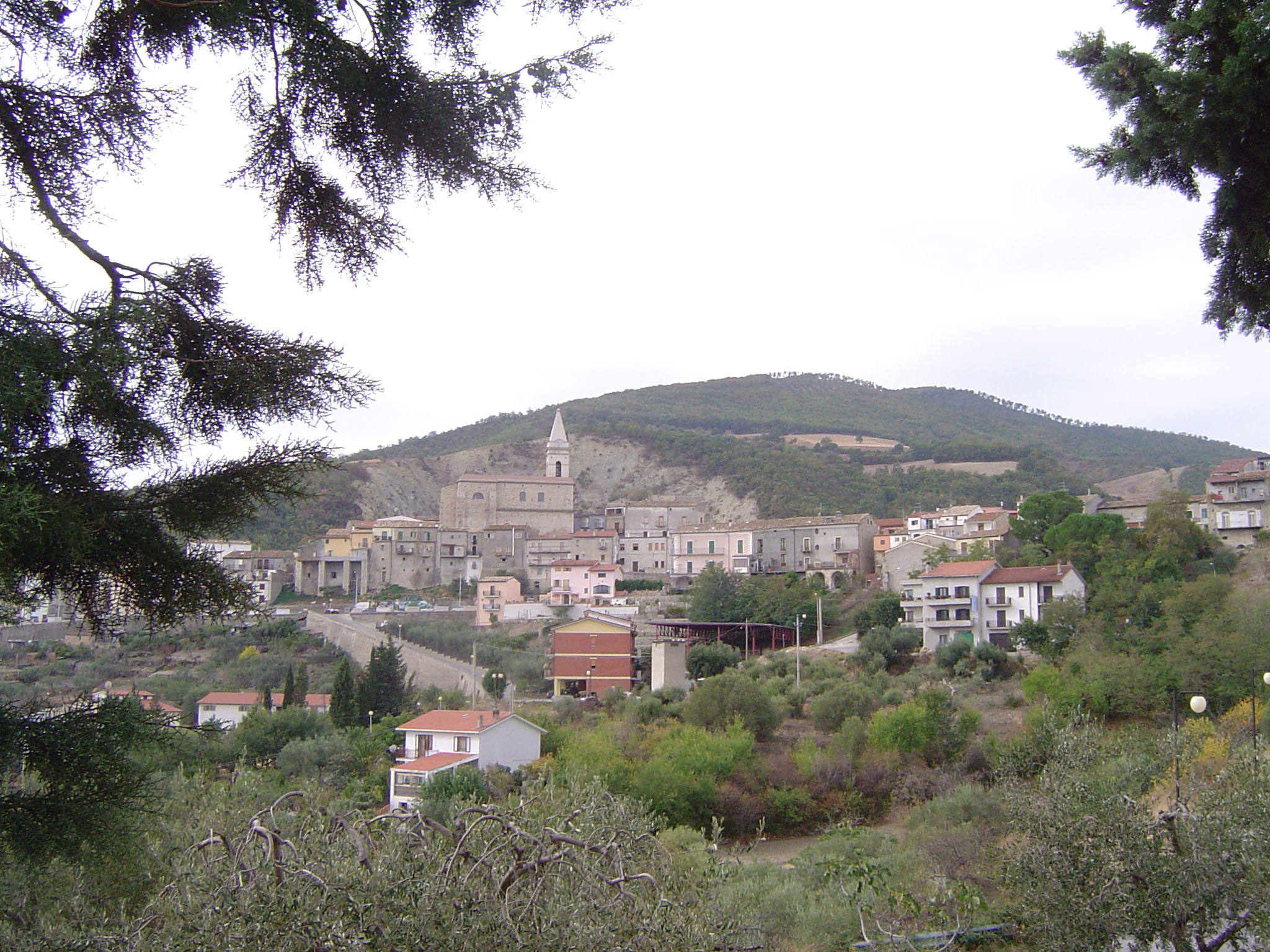 Image of Guardialfiera, Italy.